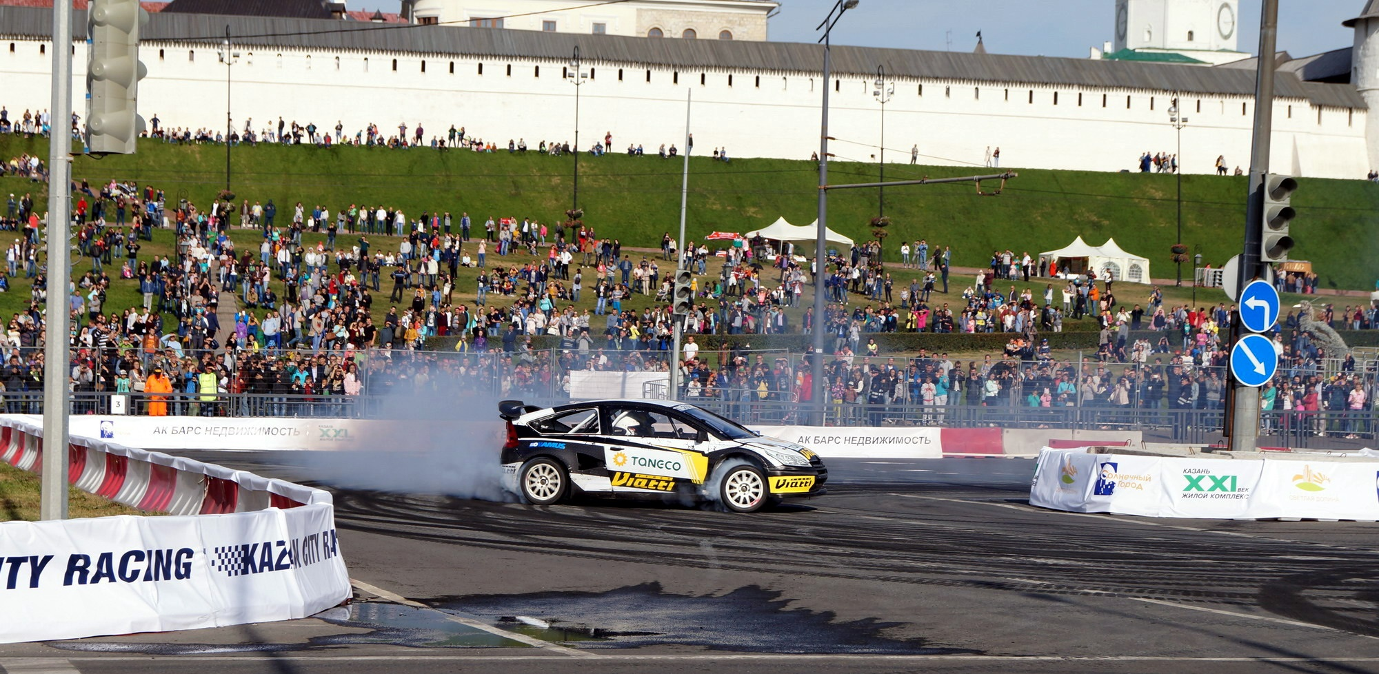 Timur Timerzyanov driving Citroën C4 T16 4x4 rallycross car Supercar class in motor show Kazan City Racing 2016.jpg